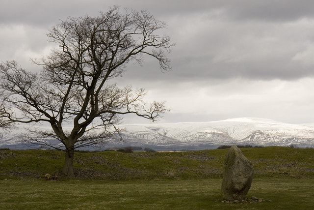 Mayburgh Henge Mayburgh Henge near Penrith.